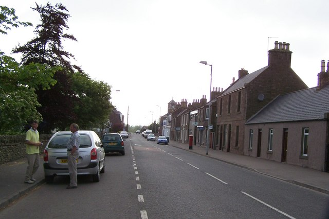 Friockheim High Street, Friockheim (pronounced Freuchie), Angus